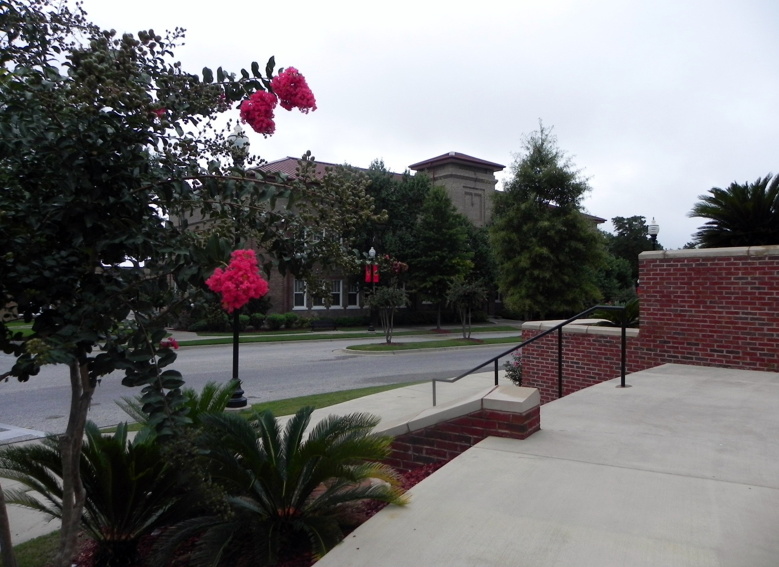 Robert R. Taylor School of Architecture and Construction Science is home to one of only 2 NAAB-accredited, architecture professional degree programs in the state of Alabama. It is also home to one of the top Construction Science and Management degree programs in the nation.